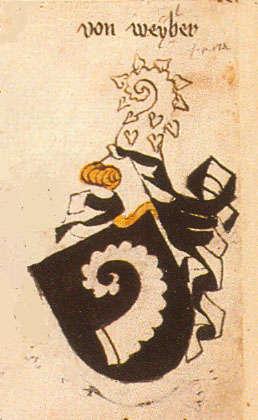 Coat of arms of the Weyher (Weiher, Wejher, Weicher) family.